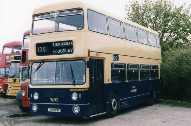 Wythall Transport Museum - Leyland Fleetline, near to Wythall, Worcestershire, Great Britain. The above vehicle photograph was taken in the early 1990s at the Wythall Transport Museum. The vehicle is a Leyland Fleetline double decker bus registration number JOV 613P. This was fleet number 4613 of the WMPTE / West Midlands Travel company. More vehicles at the museum can be seen behind it. (DVLA) Daimler 10450cc Heavy Oil first registered 11 August 1975